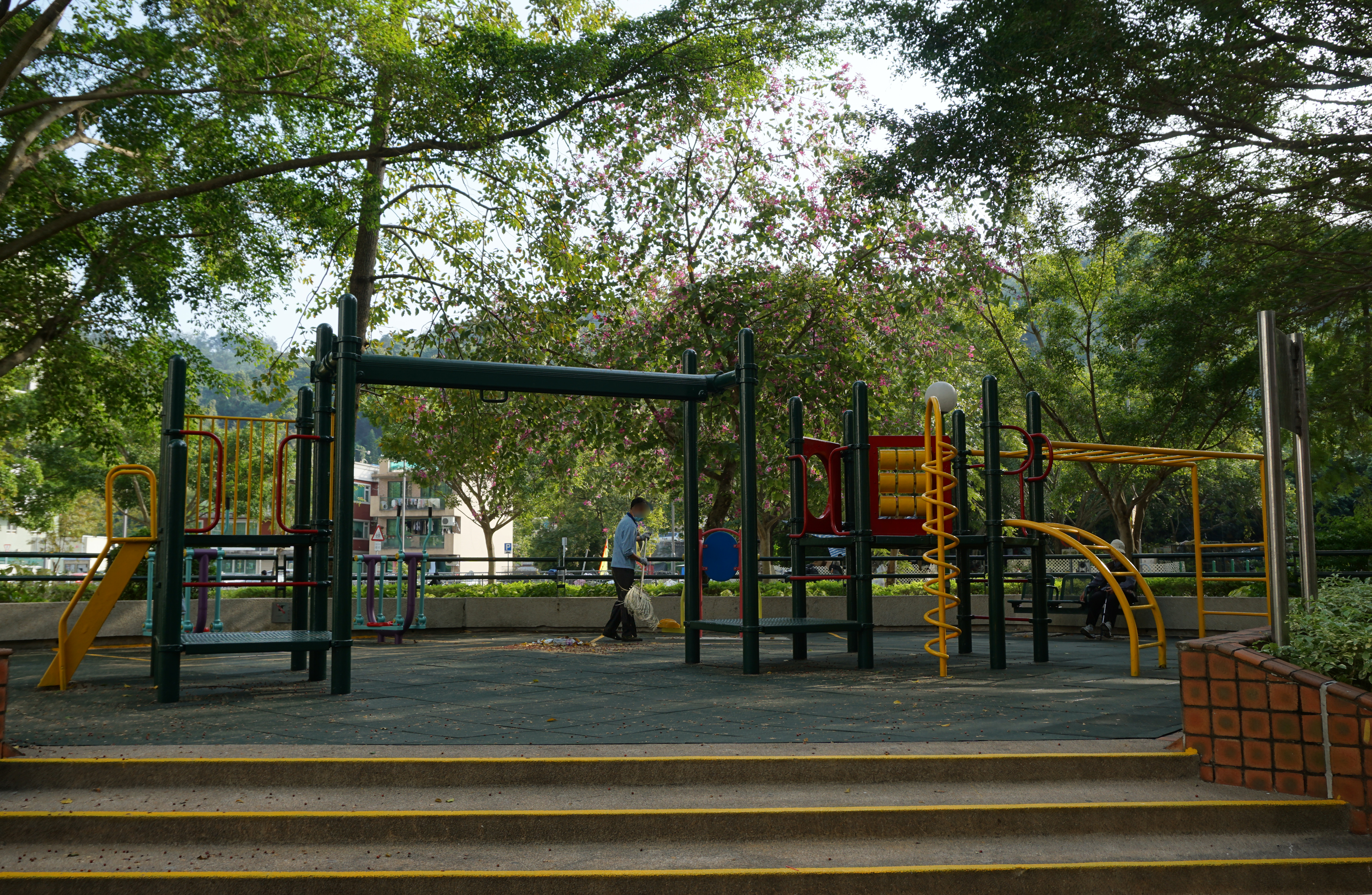 Wah Ming Estate in Fanling, Hong Kong.